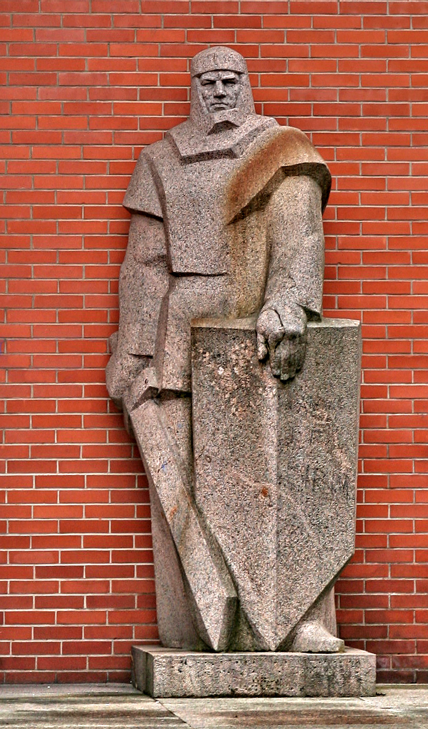 Herkus Monte[min], the leader of Prussians. A statue in Klaipėda, built for his honour in the Street of Herkus Mantas